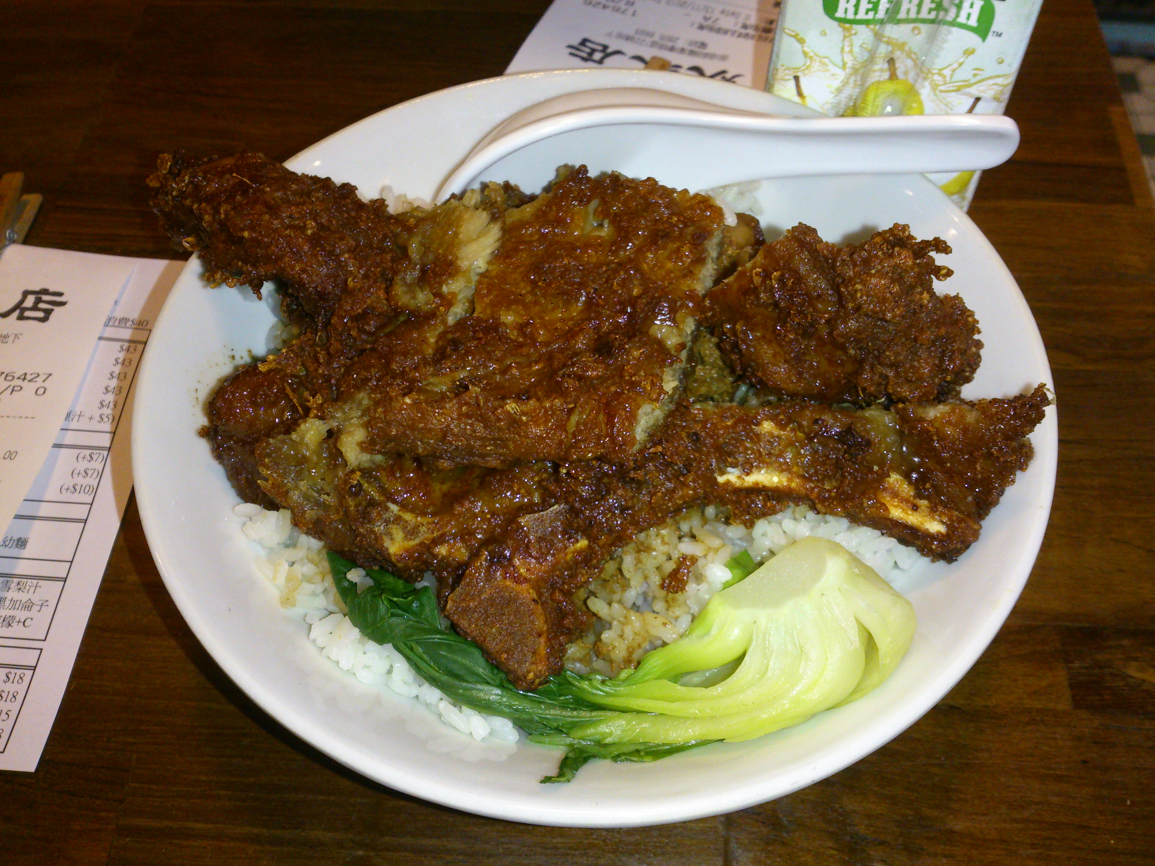 Taiwanese Pork Chop Rice in Hong Kong